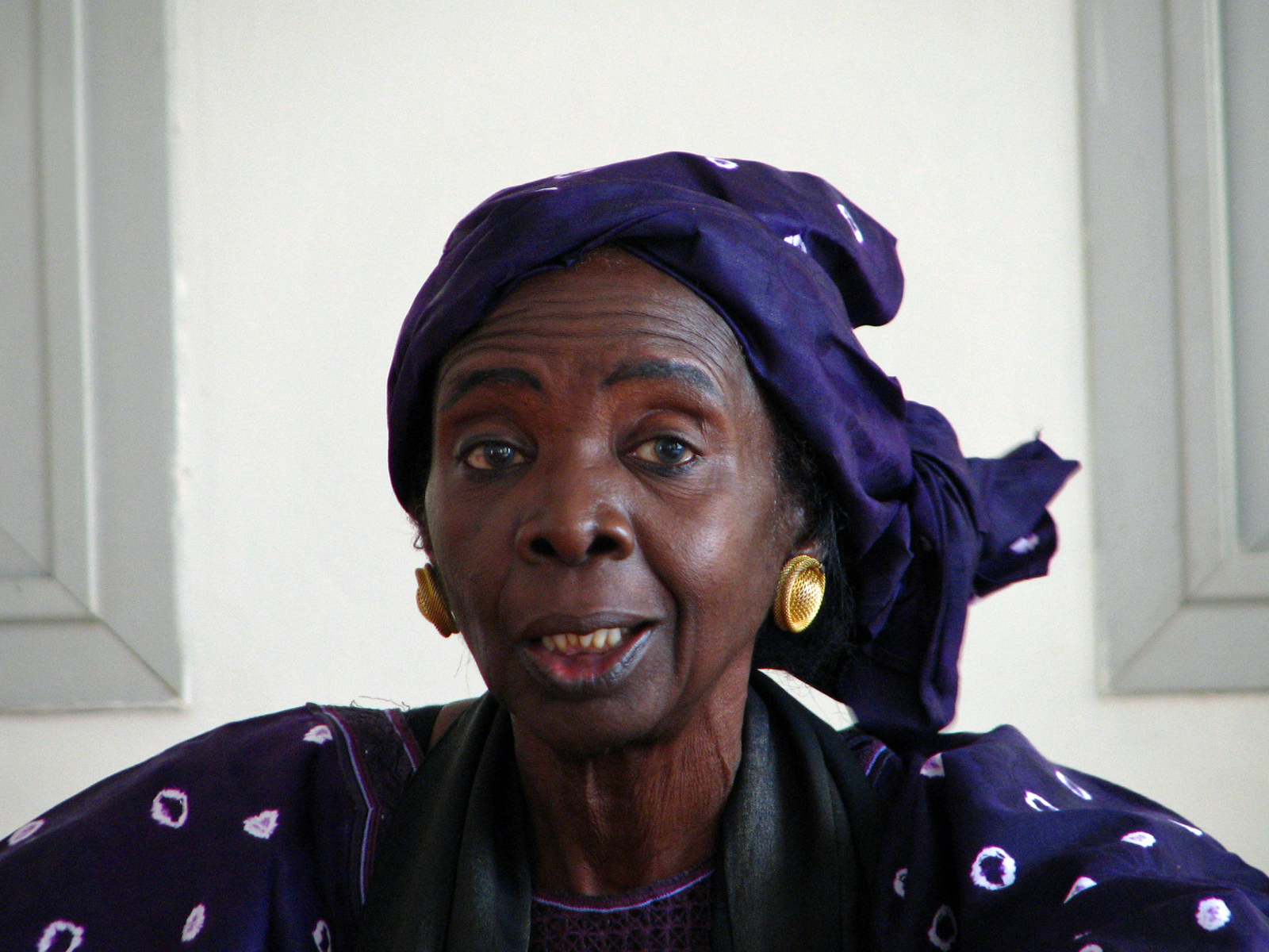 Aminata Sow Fall.